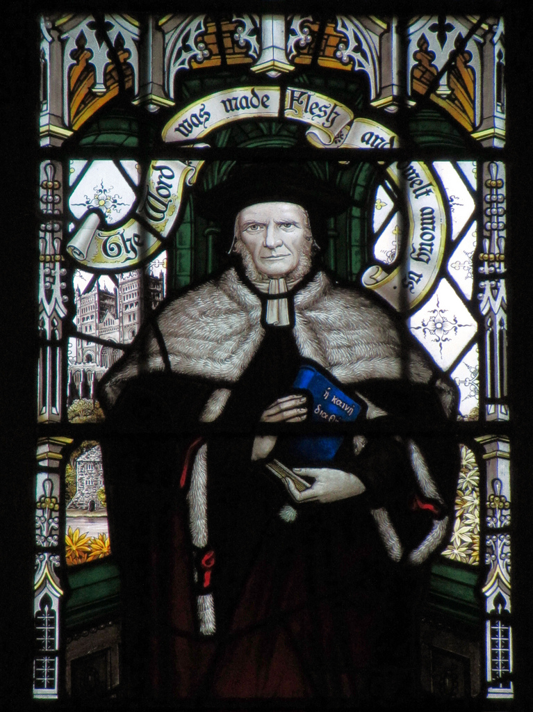 Bishop Brooke Foss Westcott shown in a window in All Saints church in Cambridge.